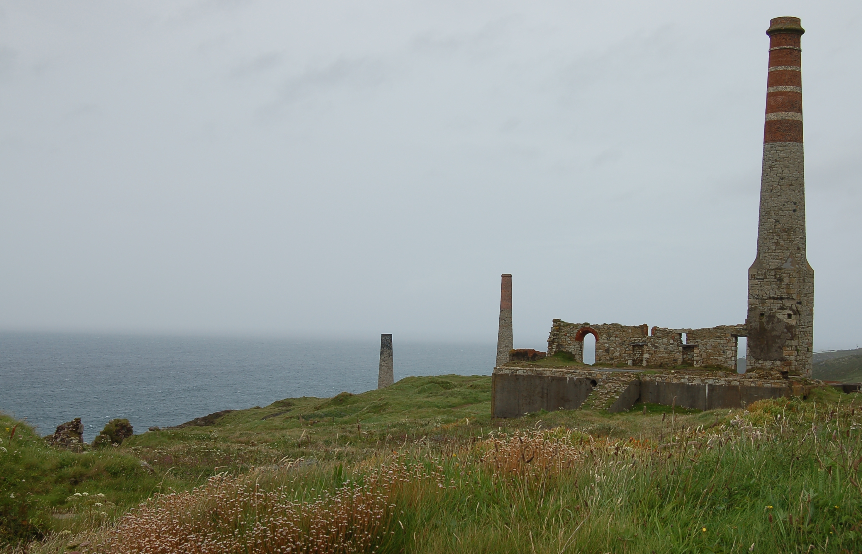 Ruine of the compressor building of the Levant Mine, an old tin and copper mine close to St Just in Cornwall, England.